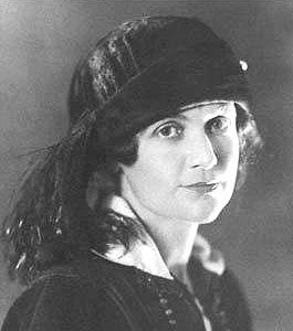 Dorothea Mackellar, Australian poet